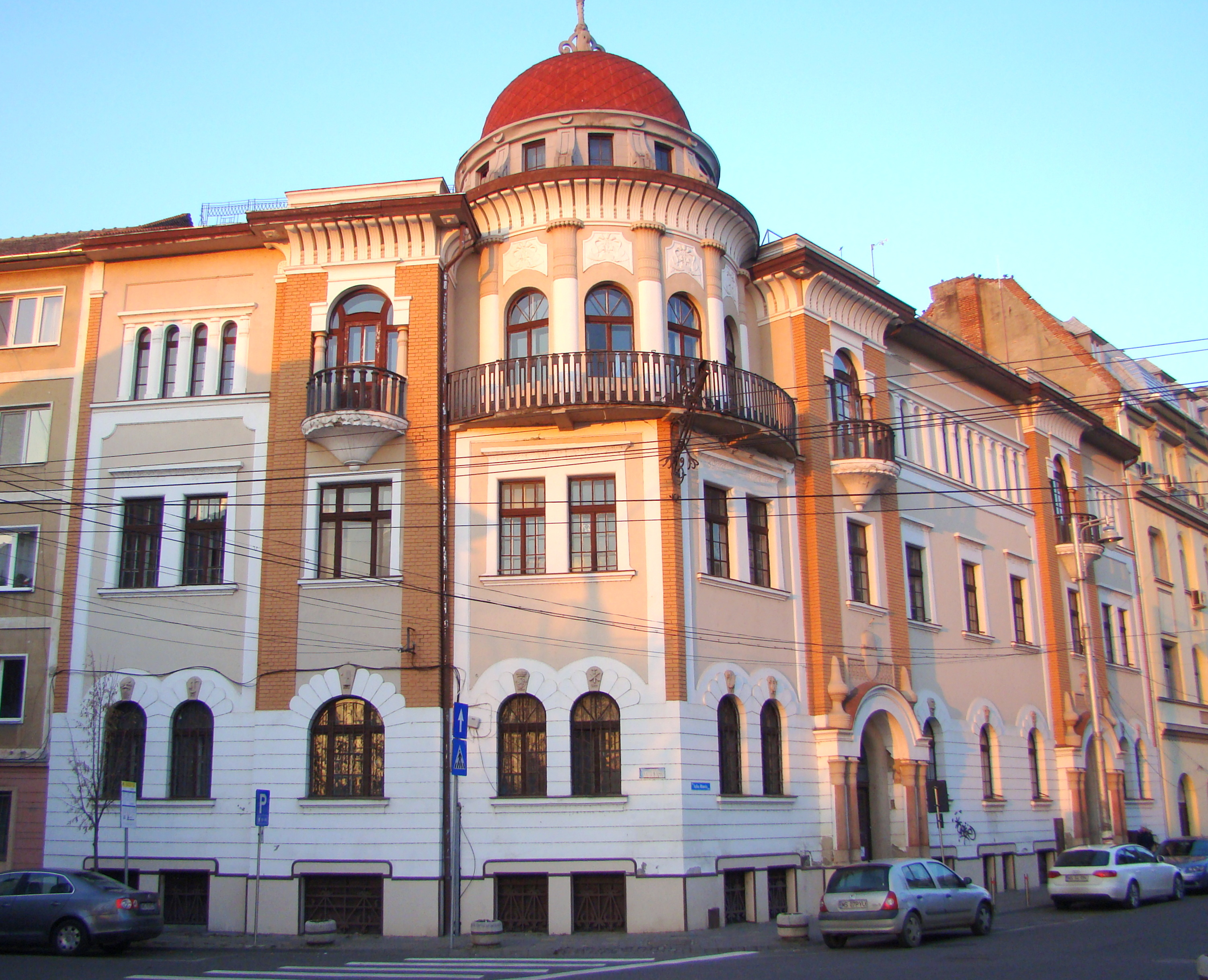 House, historic monument, in Târgu Mureș, Iuliu Maniu street 4